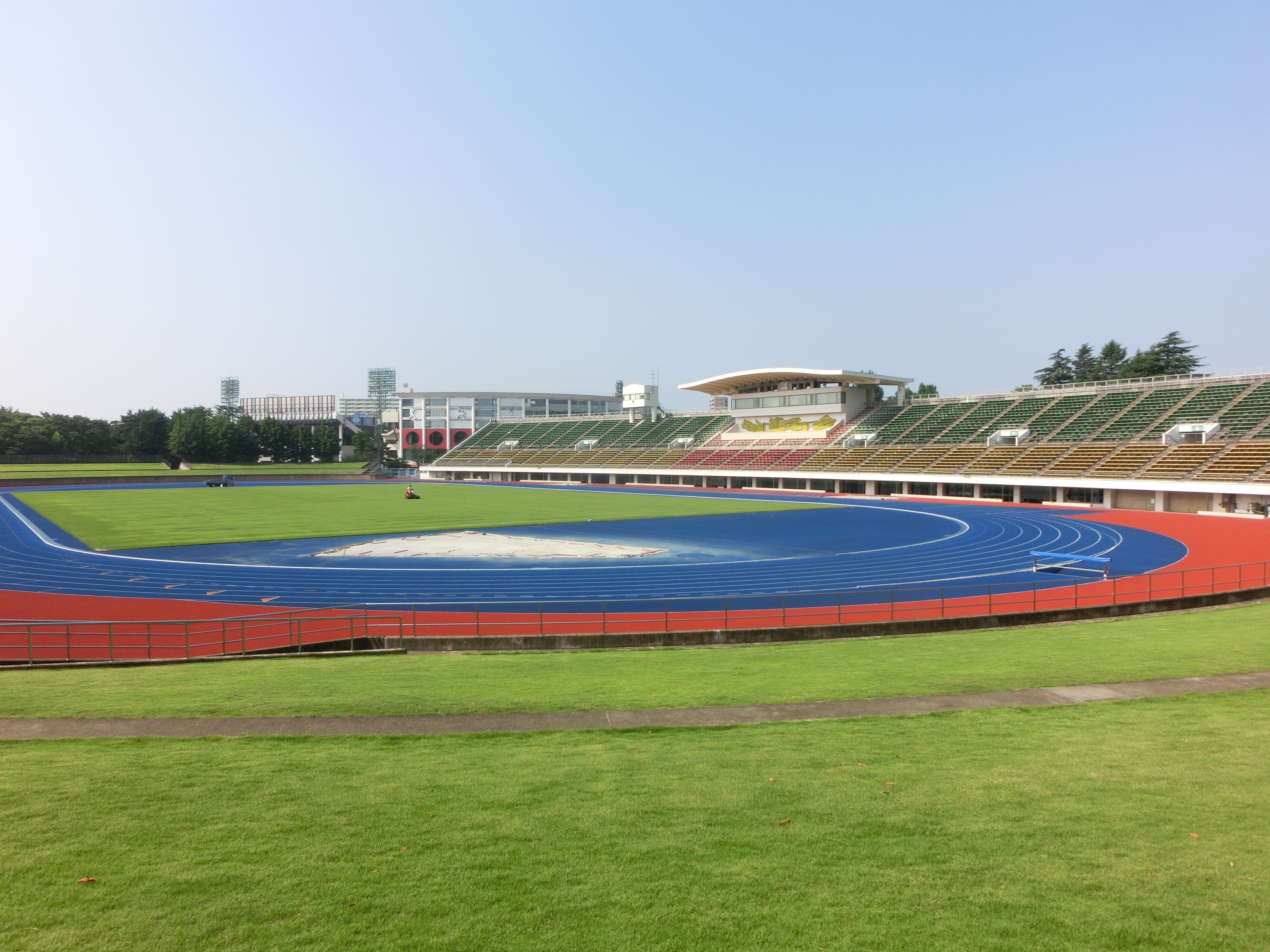 Sendai Athletic Field